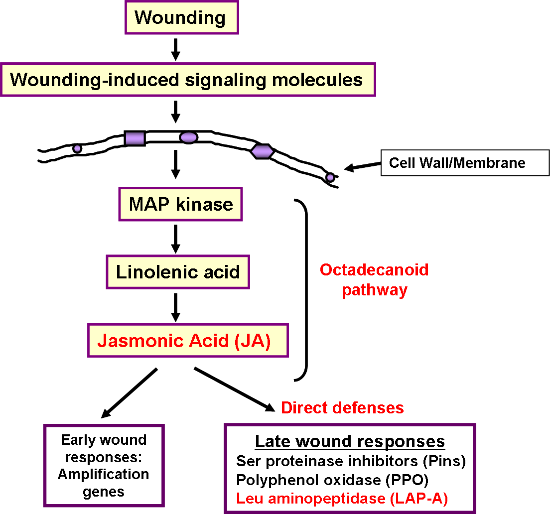 Shown above is the pathway as studied in tomato.